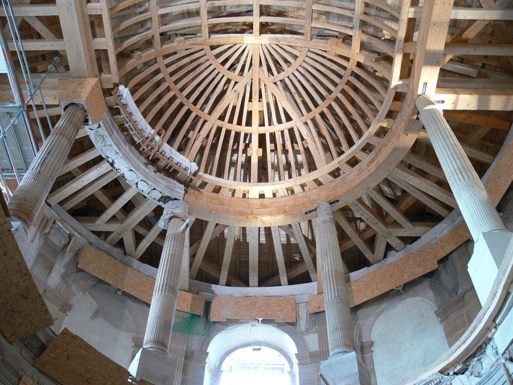 Lunéville's Castle : restoration of the chapel (rebuilding of carpenter destroyed by fire in 2003) (France, Lorraine)